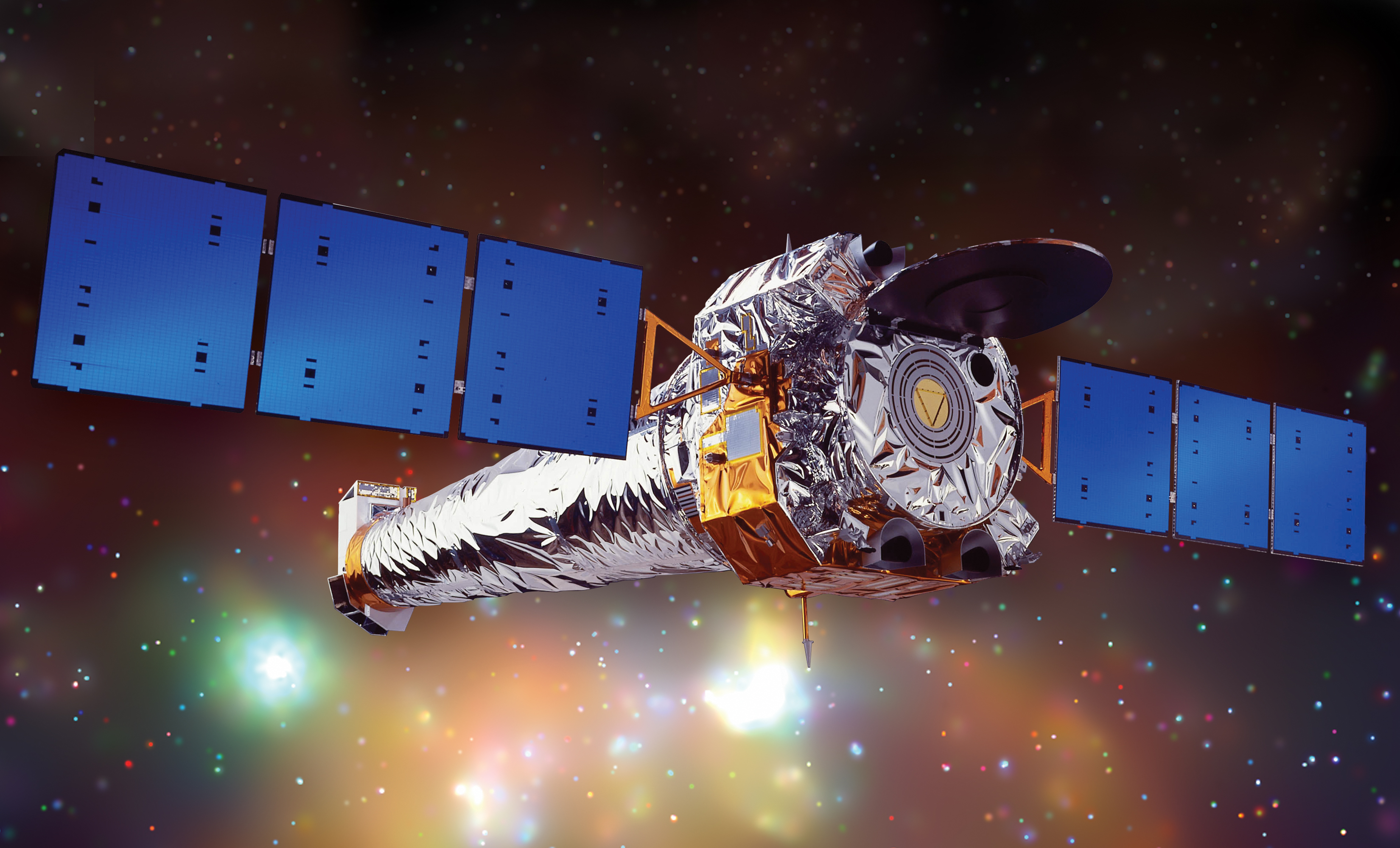 Artist illustration of the Chandra X-ray Observatory. Chandra is the most sensitive X-ray telescope ever built.